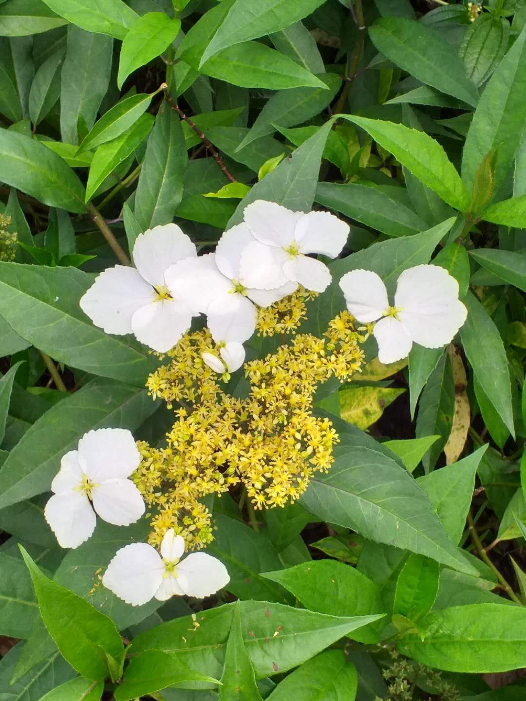 Hydrangea chinensis is a species of Hydrangea flower, native of China and Taiwan. Surrounded by eight sterile flowers developed from sepals, the middle is bisexual flowers.